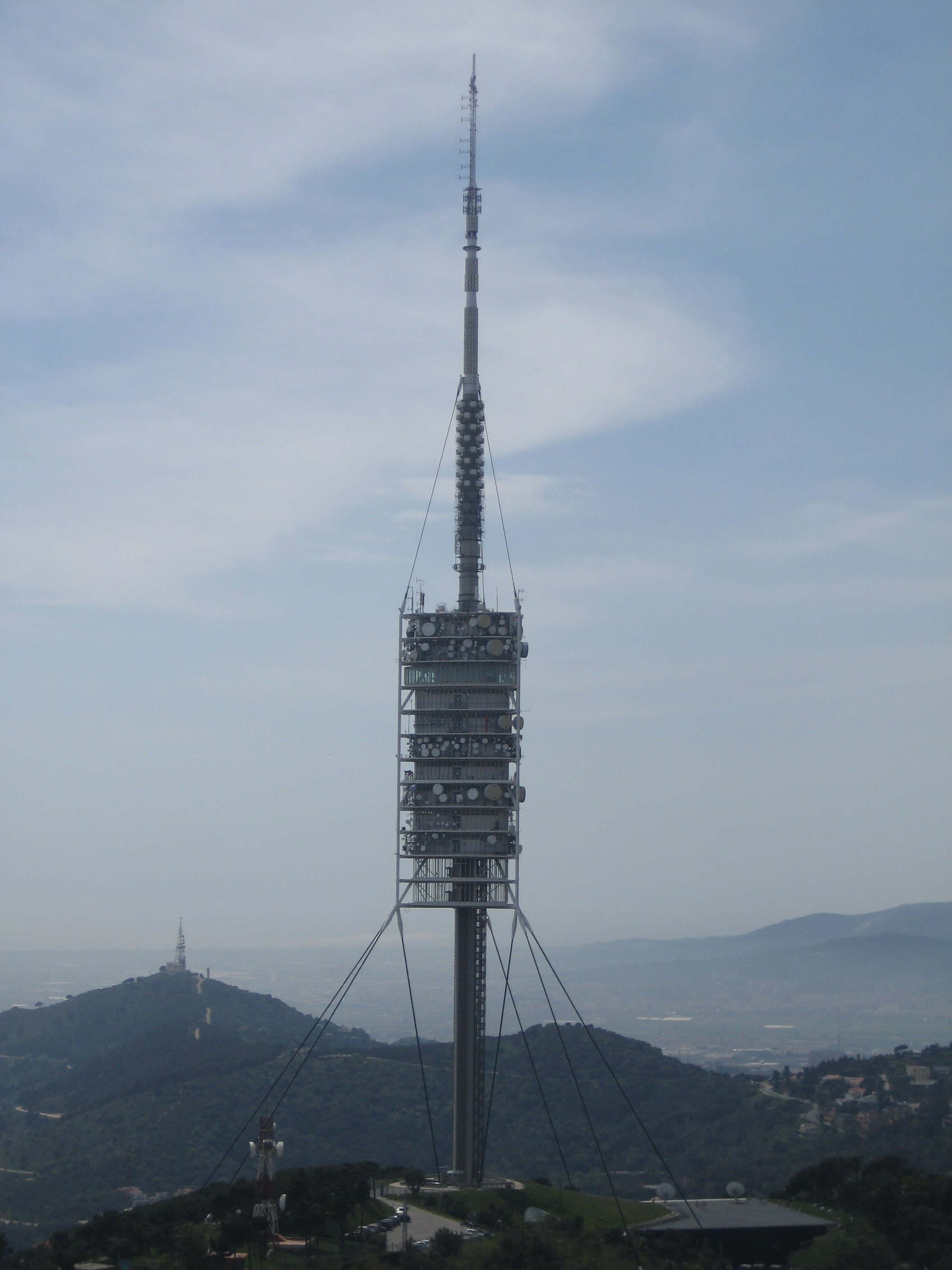 Torre Collserola, Norman Foster